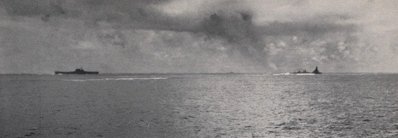 The U.S. Navy aircraft carrier USS Enterprise (CV-6), the battleship USS South Dakota (BB-57) and the heavy cruiser USS Portland (CA-33) underway following the Japanese air attacks during the Battle of the Santa Cruz Islands on 26 October 1942.